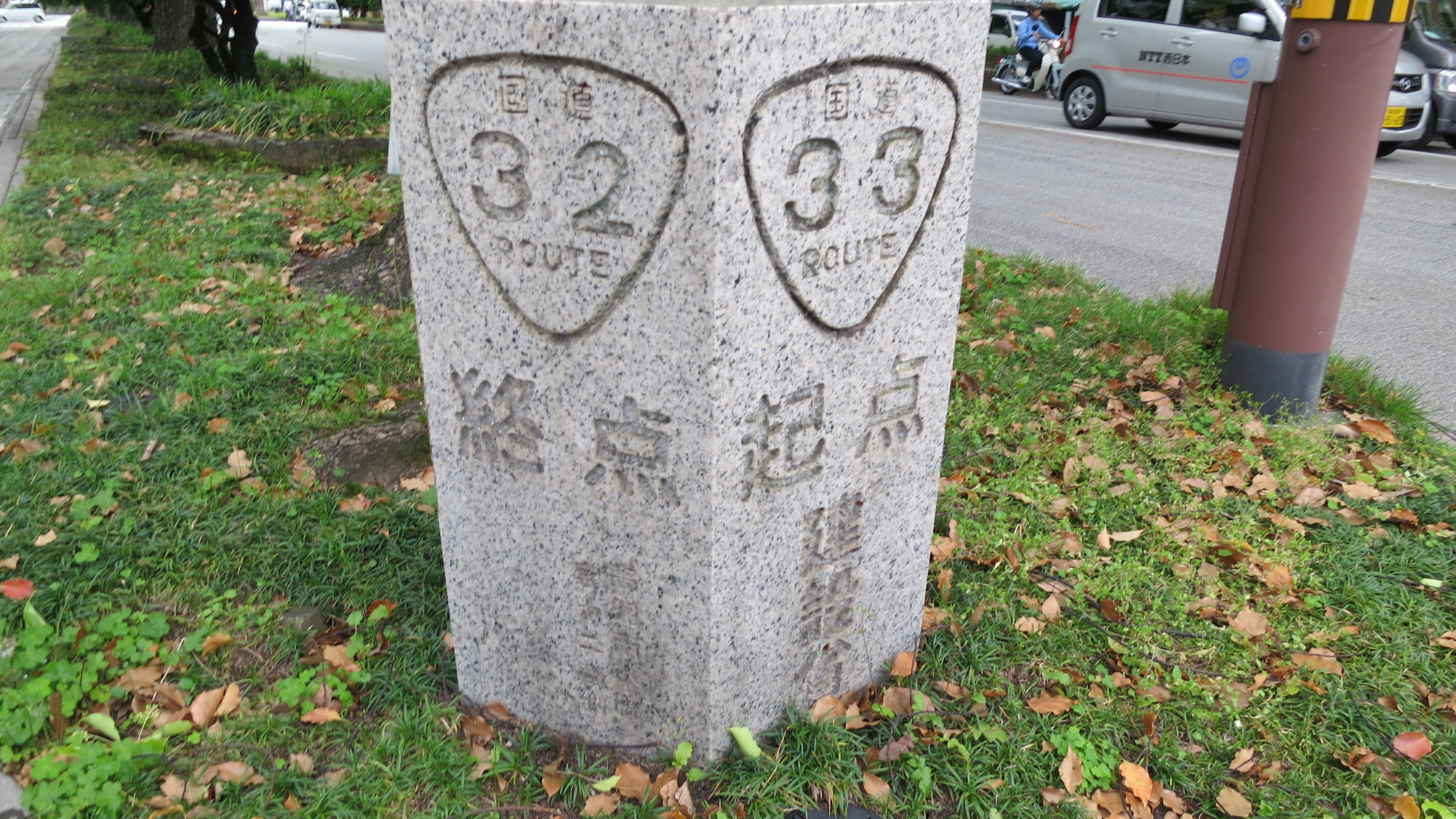 高知市 道路元標